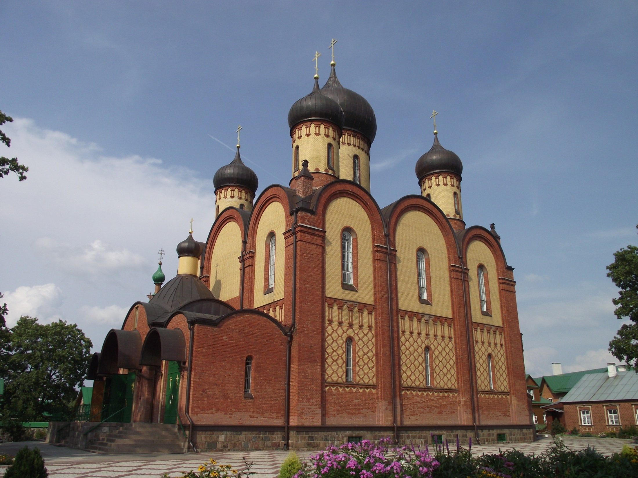 Assumption Cathedral in Pühtitsa nunnery